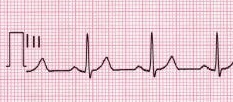 This is a cut out of the original one, showing only Lead II to explain rhythms